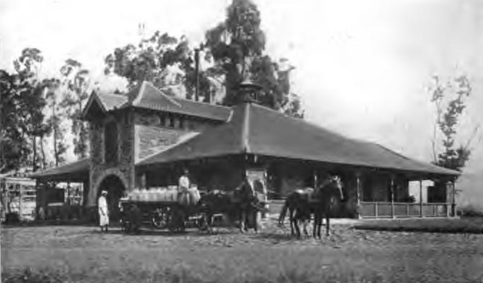 The dairy farm of Joseph Baynes at Nel's Rust, Natal, South Africa sometime before 1903. This media shows a South African Protected Site with SAHRA file reference 9/2/440/0013.